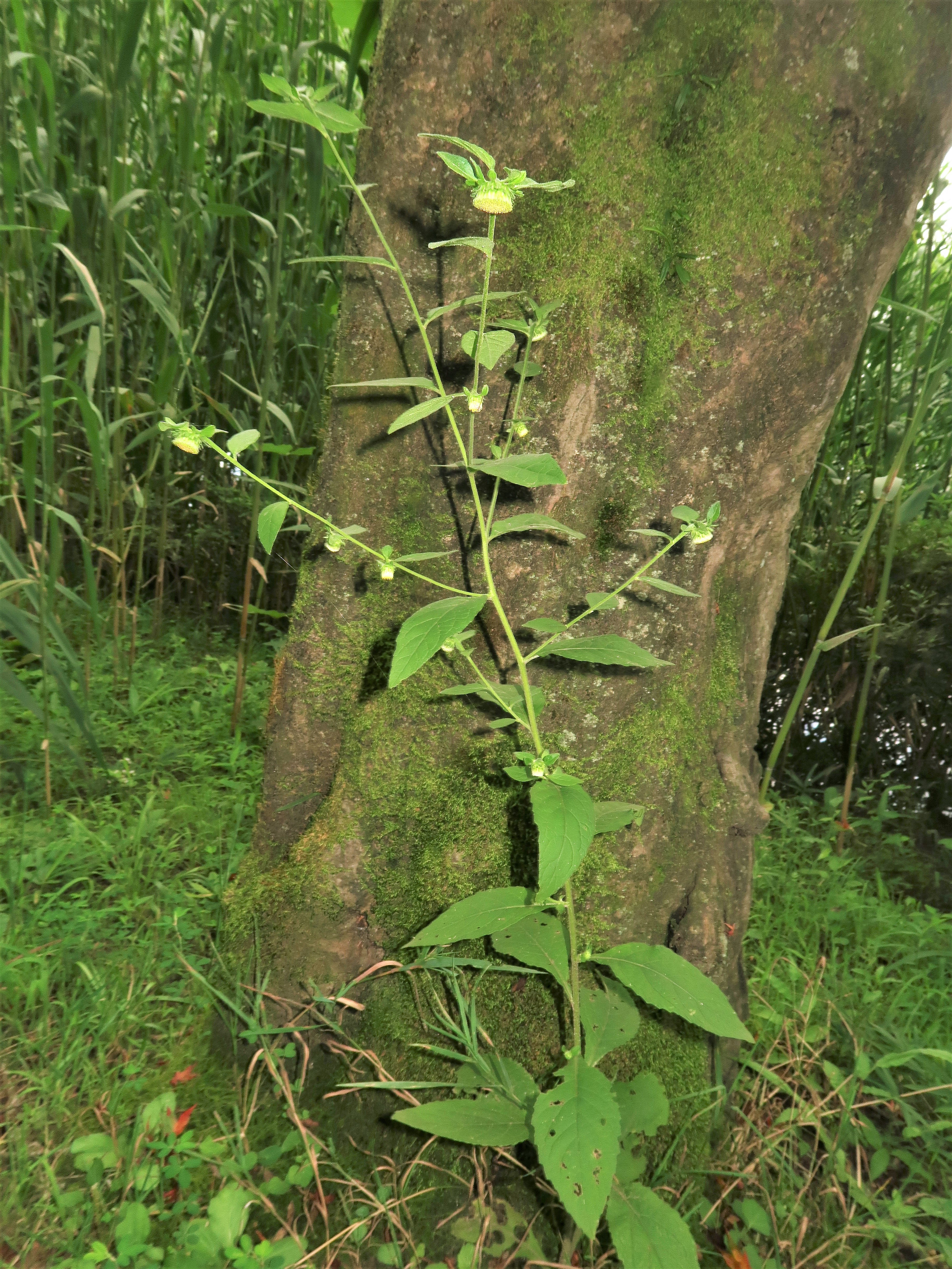 Carpesium cernuum, Naka-dori area, Fukushima pref., Japan